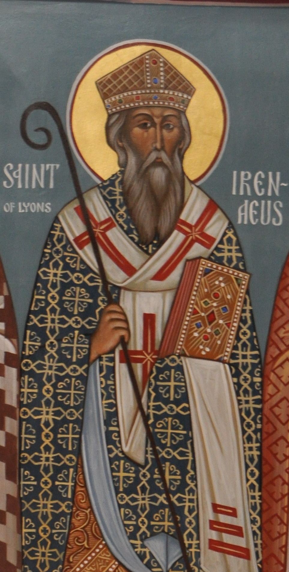 Icon: St. Irenaeus of Lyons